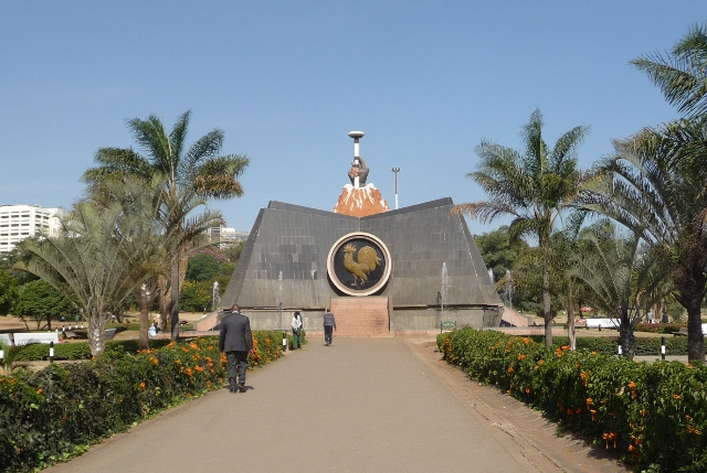 Nyayo Monument, Central Park (next to Uhuru Park), Nairobi, Kenya